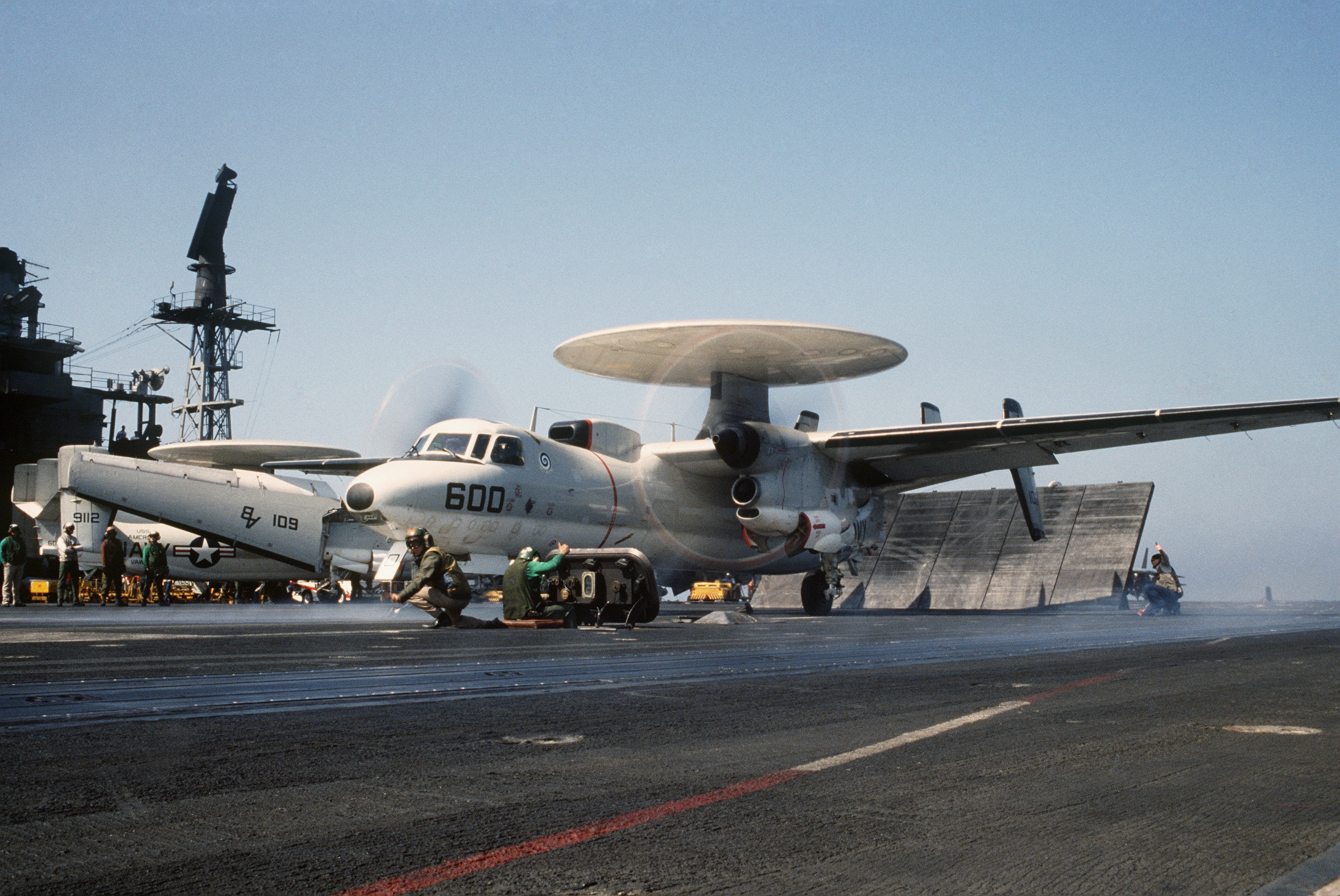 A U.S. Navy Grumman E-2C Hawkeye aircraft from airborne early waring squadron VAW-123 Screwtops about to take off the aircraft carrier USS America (CV-66) during flight operations off the coast of Libya on 17 April 1986. VAW-123 was assigned to Carrier Air Wing 1 (CVW-1) aboard the America for a deployment to the Mediterranean Sea from 10 March to 15 September 1986. On 15 April 1986 America´s aircraft participated in "Operation El Dorado Canyon", the bombing of Libya.